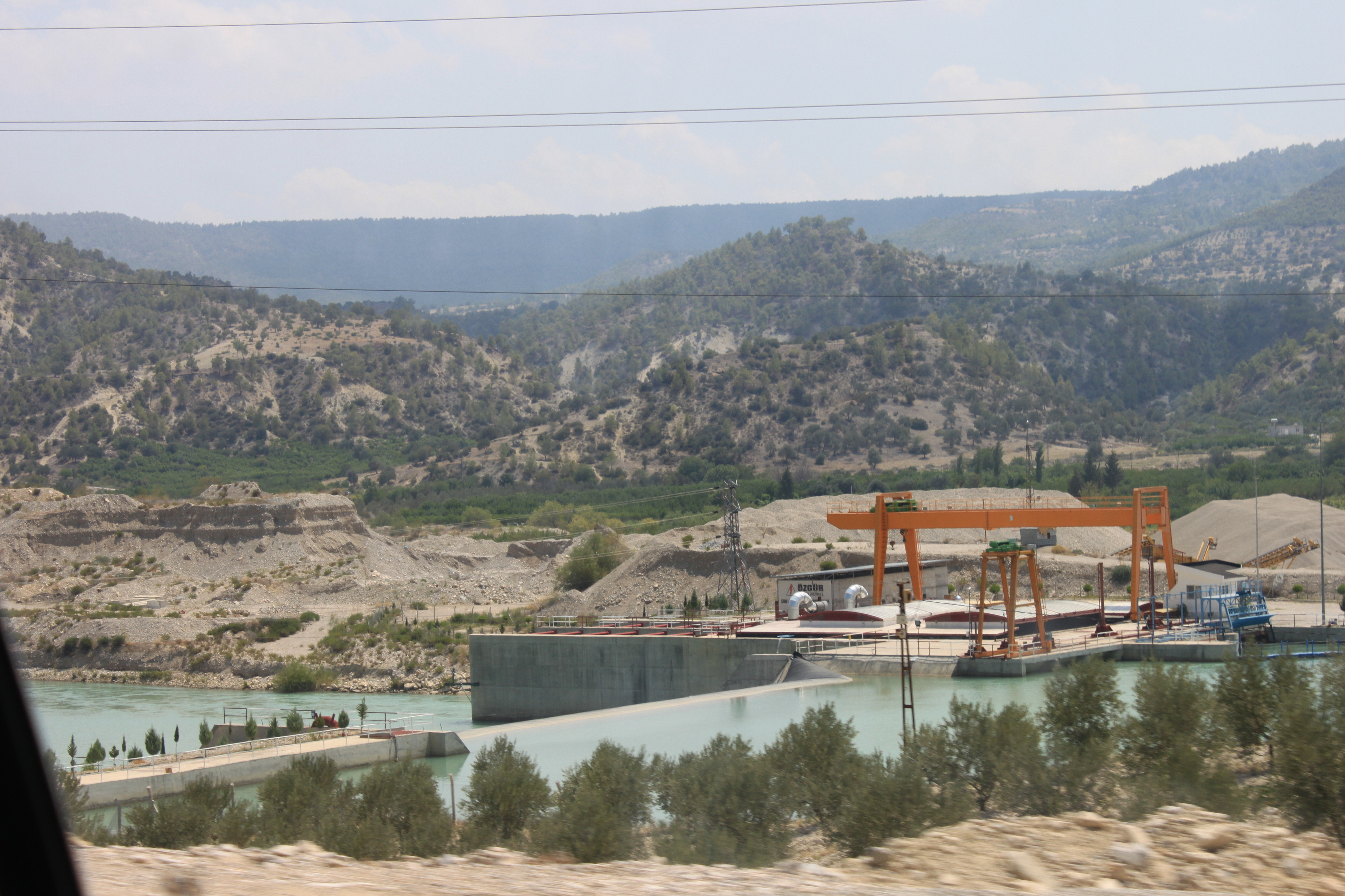 Ermine River power station Azmak near Zeytinçukuru (city of Mut)